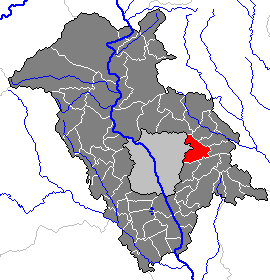 This map shows the area of the Gemeinde (municipality) Kainbach bei Graz in the Bezirk (district) Graz-Umgebung, Styria, Austria.